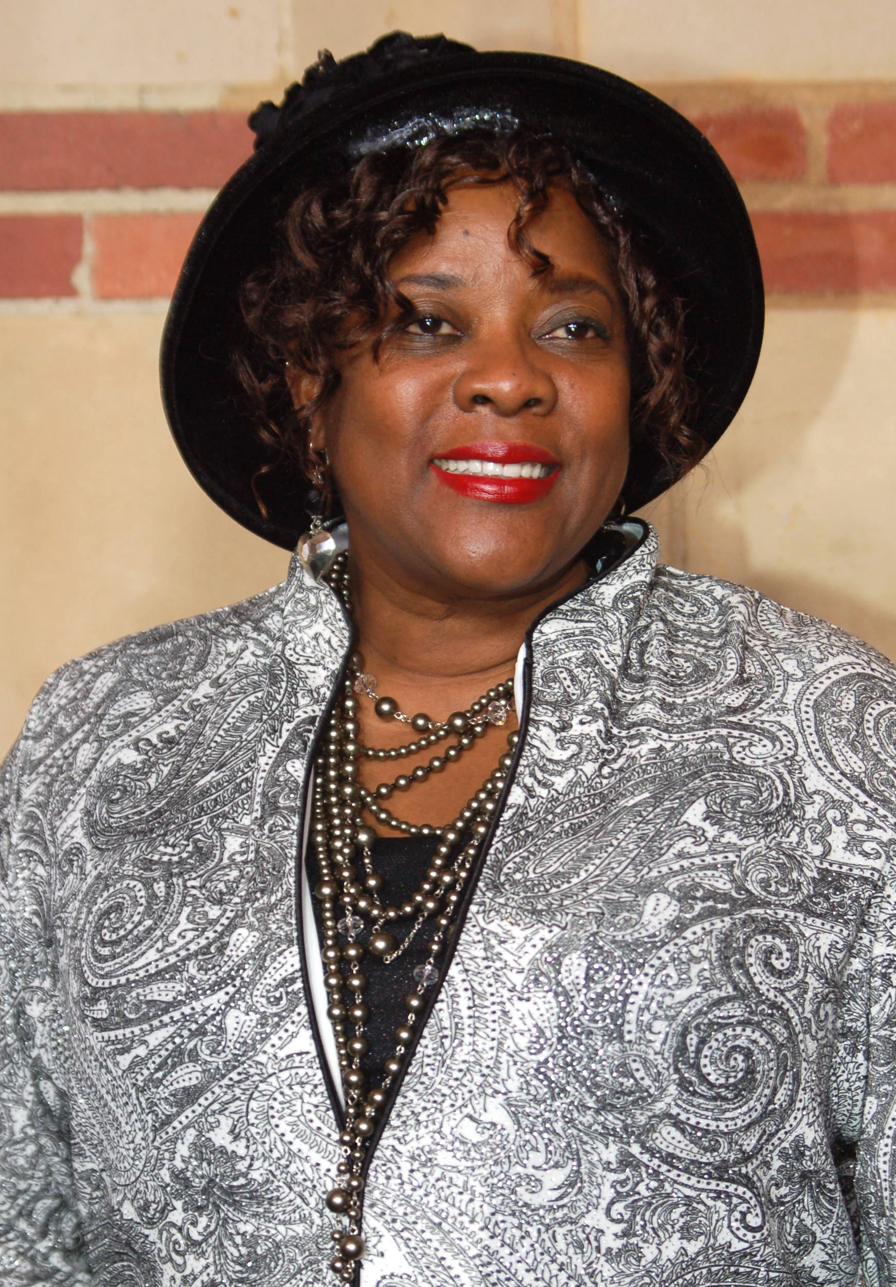 Loretta Devine at a performance of The Hot Chocolate Nutcracker in December 2010.